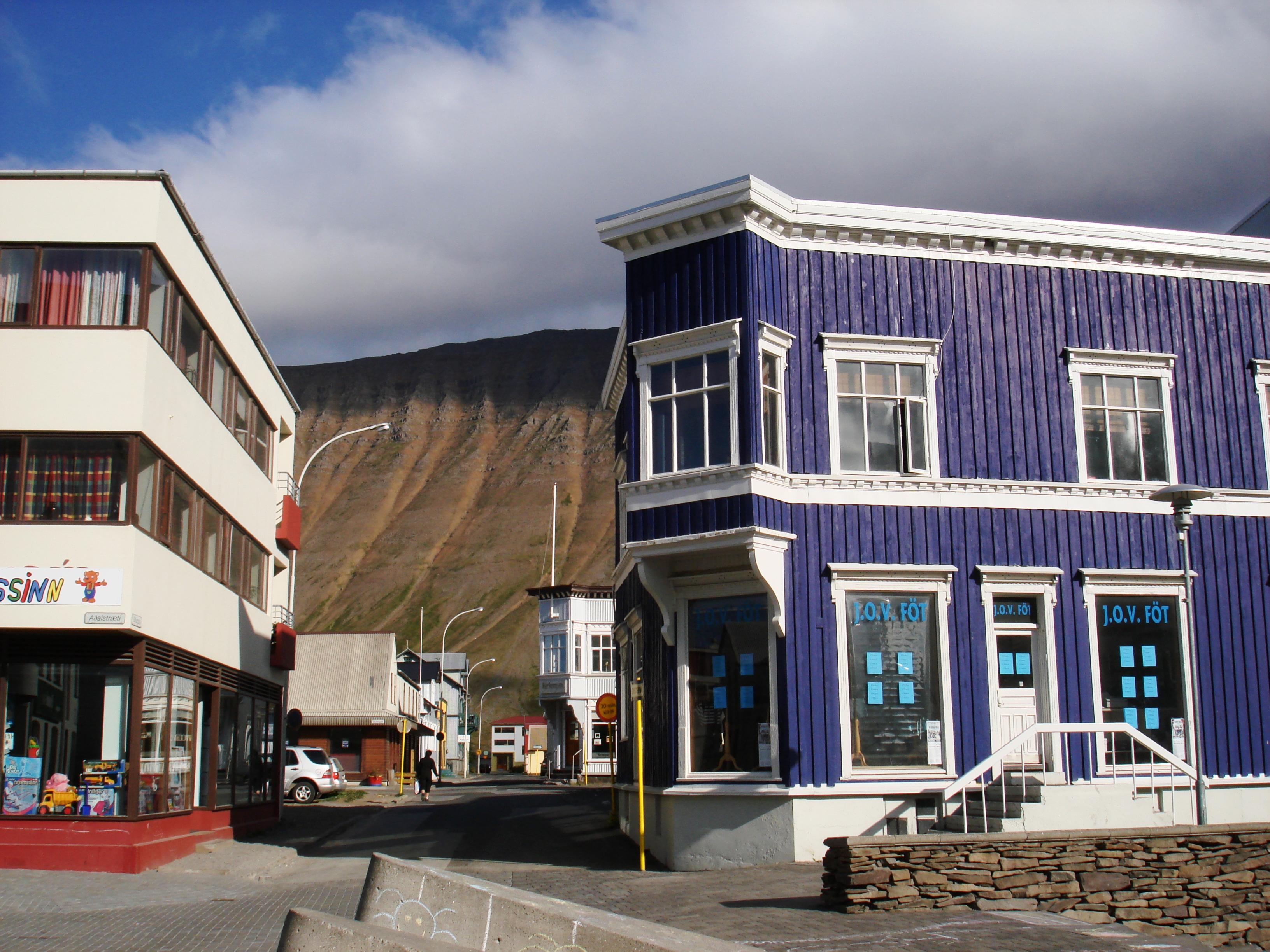 Isafjordur city center